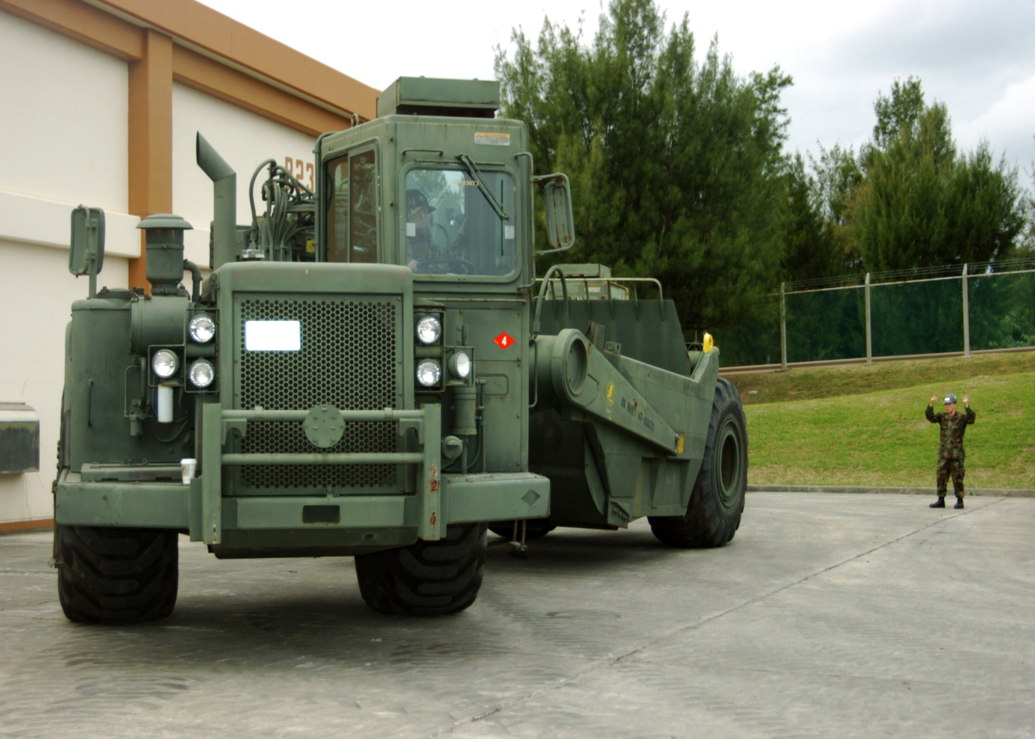 Okinawa, Japan (Dec. 27, 2005) - Equipment Operator Constructionman Steven Dixson guides Equipment Operator Third Class Braden Coffin assigned to Naval Mobile Construction Battalion Four (NMCB-4) prepares to finish his operator’s qualification on an 18-cubic yard scraper. NMCB-4 is stationed on board Camp Shields on the island of Okinawa for a scheduled six-month deployment. U.S. Navy photo by Photographer’s Mate 3rd Class Ronald Gutridge (RELEASED)